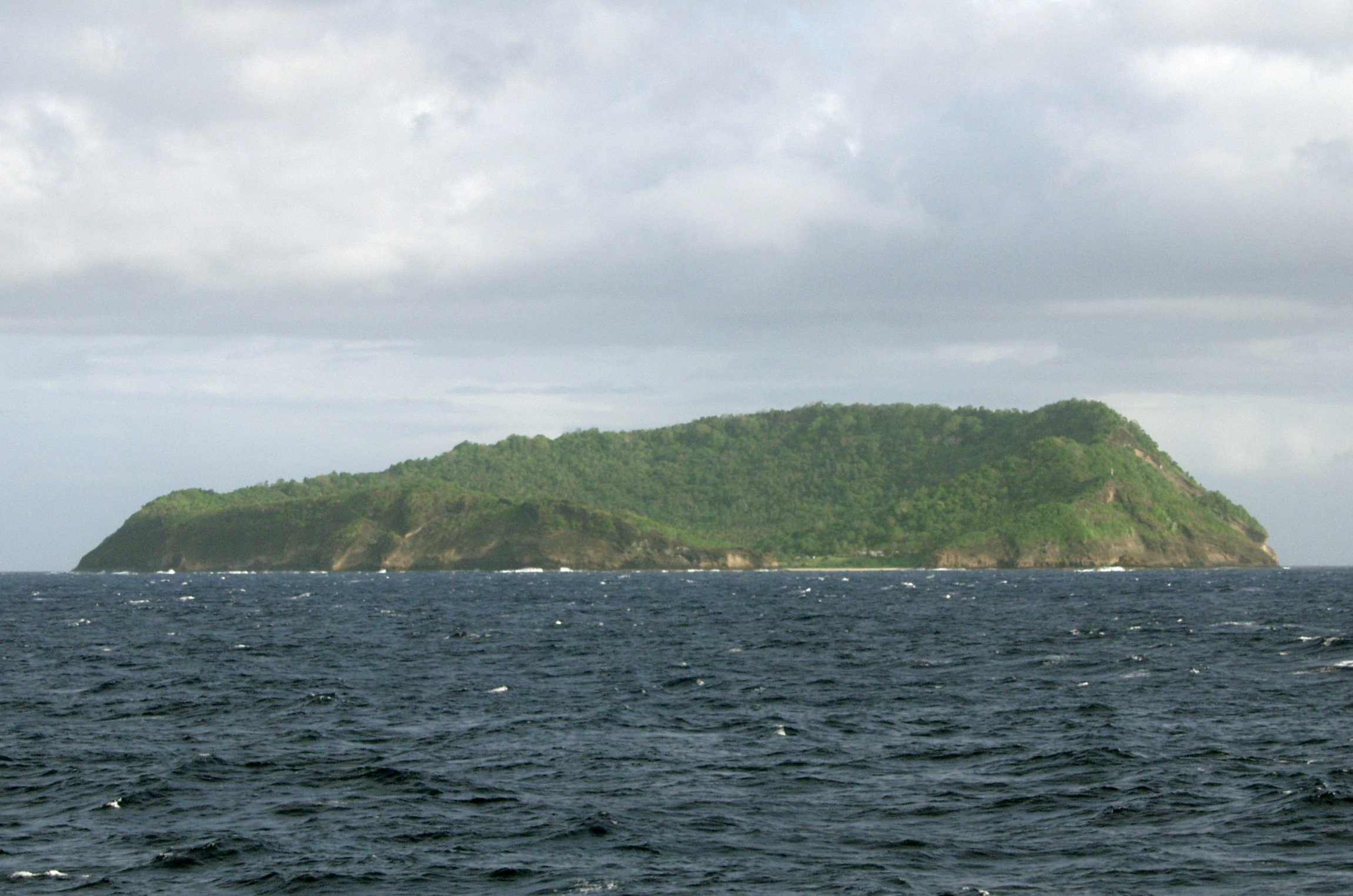 Apolima Island (Samoa) as seen from the Upolu-Savaiʻi ferry